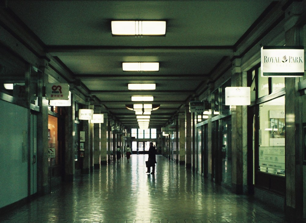 First Marunouchi Building inside.